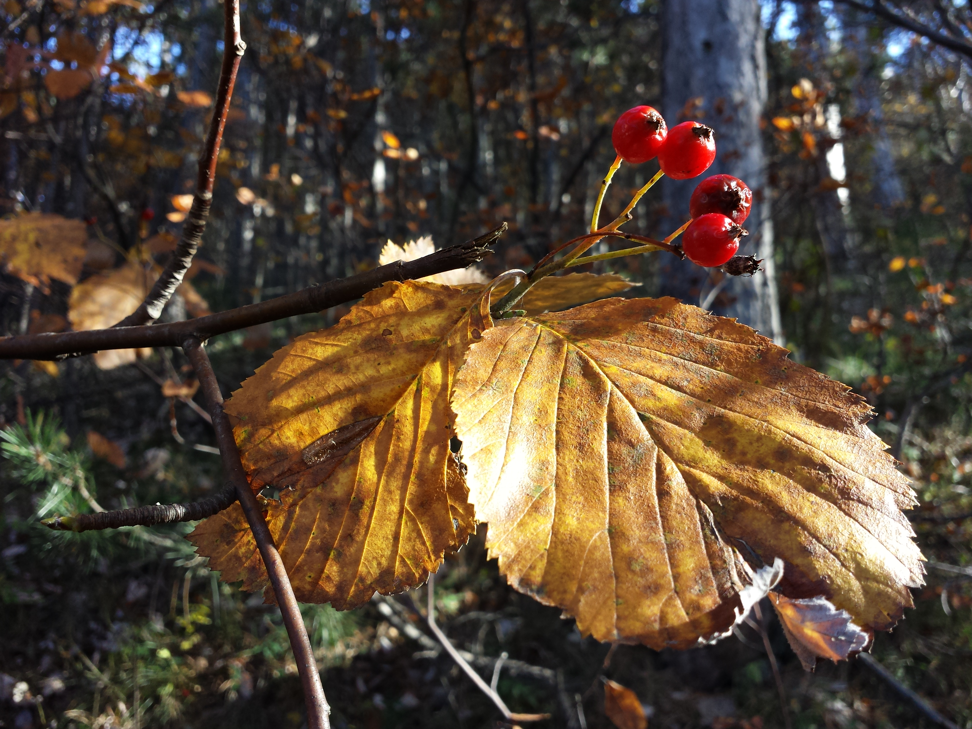 Fruits and leaves Taxon: Sorbus aria (sensu Fischer et al. EfÖLS 2008; det. M. A. Fischer 2013-10-19) Location: Anninger near Breite Föhre, district Mödling, Lower Austria - ca. 390 m a.s.l. Habitat: pine forest